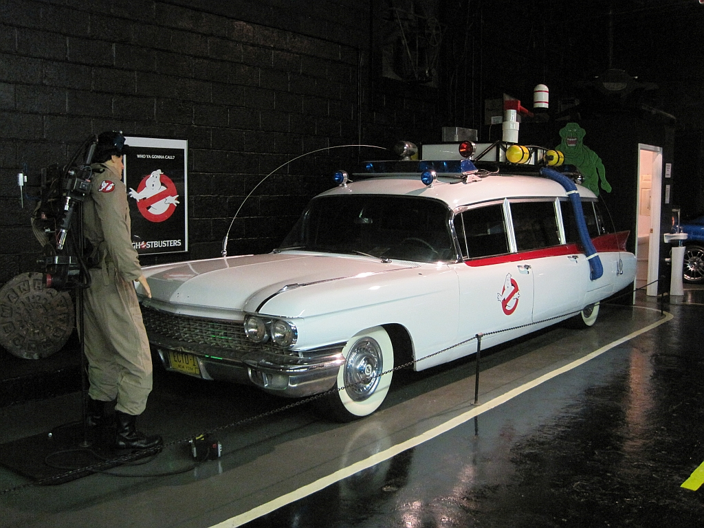 Rusty's TV & Movie Car Museum in Jackson, Tennessee. Ghostbusters